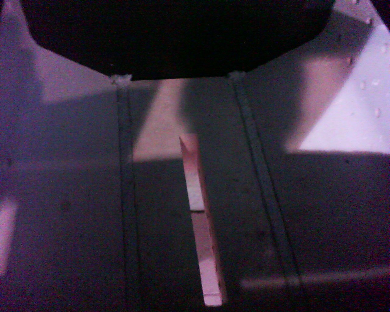 Boiler gasification chamber bottom as jet made of chamotte